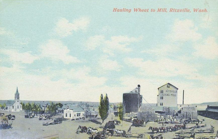 Postcard picture of Hauling wheat for shipment in Ritzville, Washington